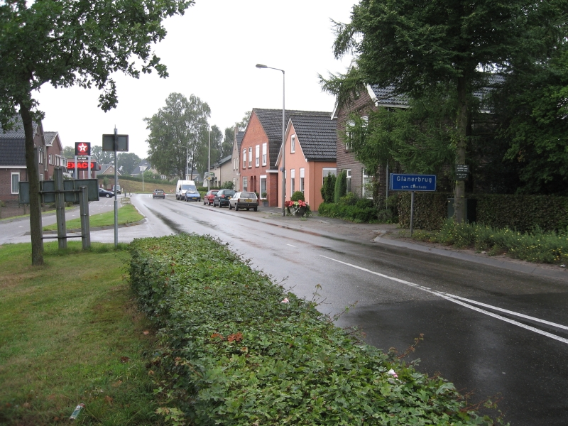 Dutch Provincial road 731 near Glanerbrug